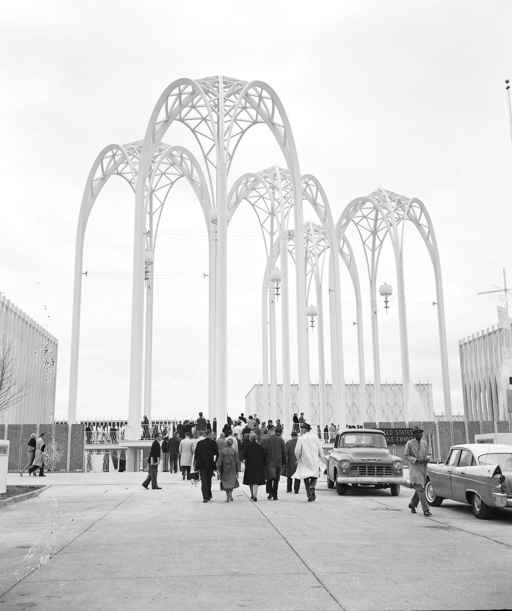 US pavilion/science pavilion (later Pacific Science Center) at Century 21 Exposition (World's Fair), Seattle, Washington, USA, 1962. Item 78917, City Light Photographic Negatives (Record Series 1204-01), Seattle Municipal Archives.